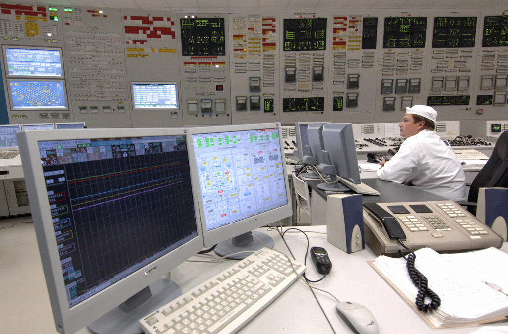 “Leningrad Nuclear Power Plant near St.Petersburg”. Unit control board of the Leningrad Nuclear Power Plant located in the town of Sosnovy Bor on the southern shore of the Gulf of Finland.